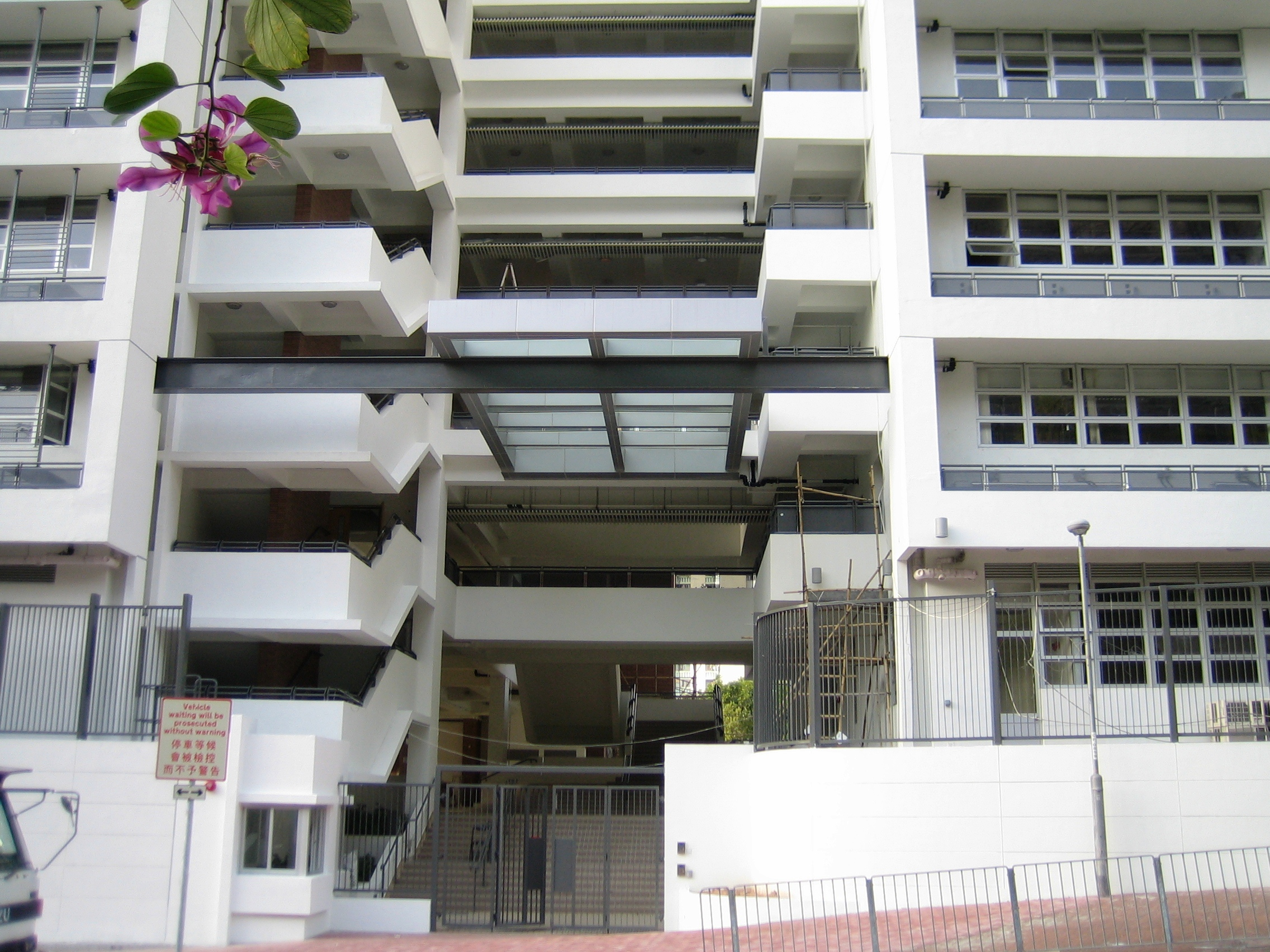 This image is the south view of Main Entrance, SJACS new campus which is taken from Choi Hing Road, Hong Kong. If you have any questions about the licensing (like cc-by-sa, GFDL), or you want to republish the image without using the licensing shown as below, you are welcome to leave a message on the User Talk Page of my Chinese Wikipedia account. 中文（香港）: 這照片是從南面拍下聖若瑟英文中學新校舍正門，拍攝地點是香港九龍彩興路。 如你對這照片版權許可協議 (例cc-by-sa, GFDL) 有疑問，或你想把照片不用以下的版權協議轉載，歡迎你到我在中文維基百科的用戶對話頁留言。